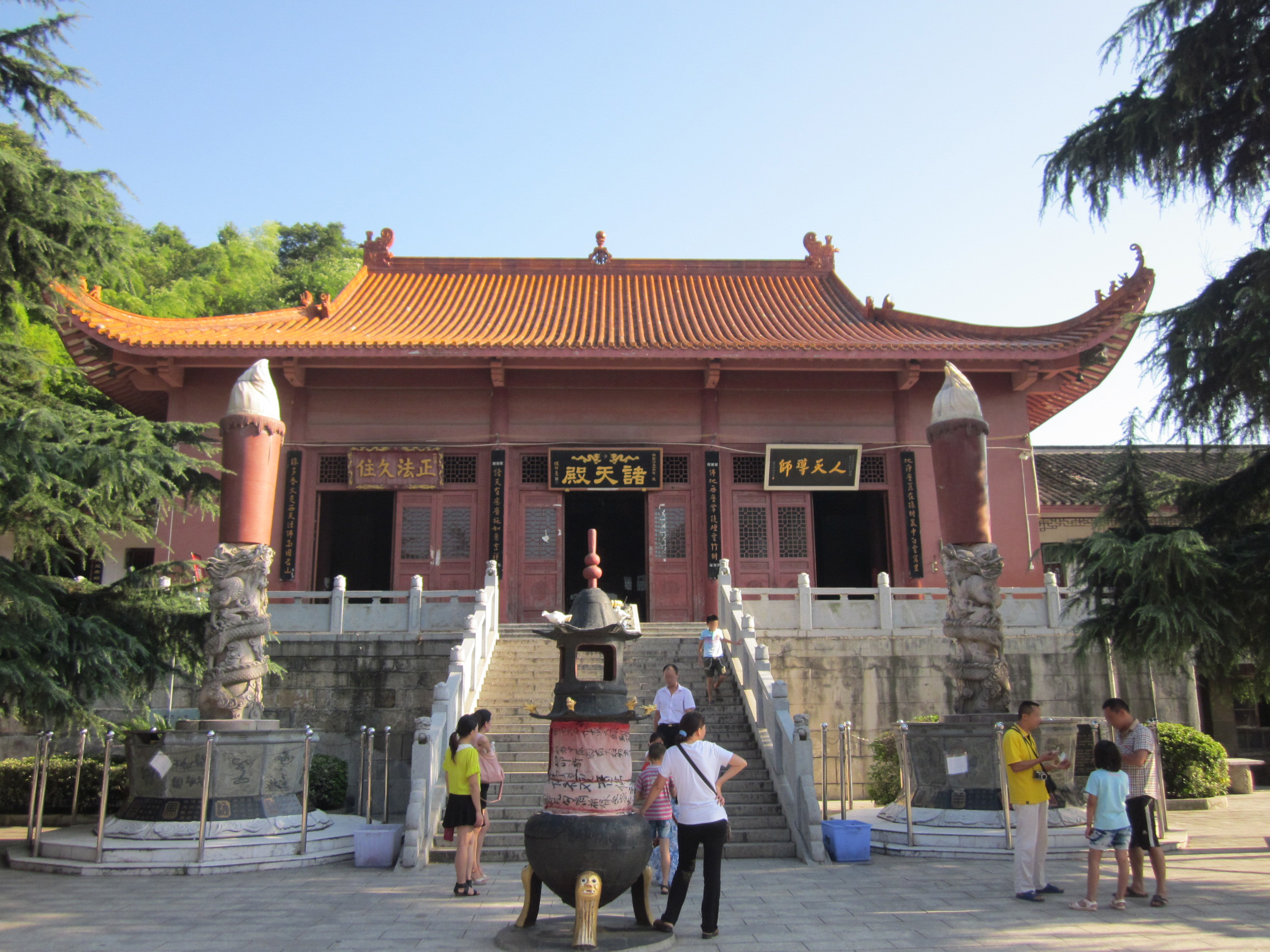 The Hall of Twenty-Four Heavenly Kings at Baiyun Temple, in Ningxiang County, Hunan, China.